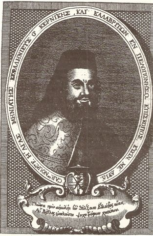 Hlias Miniatis